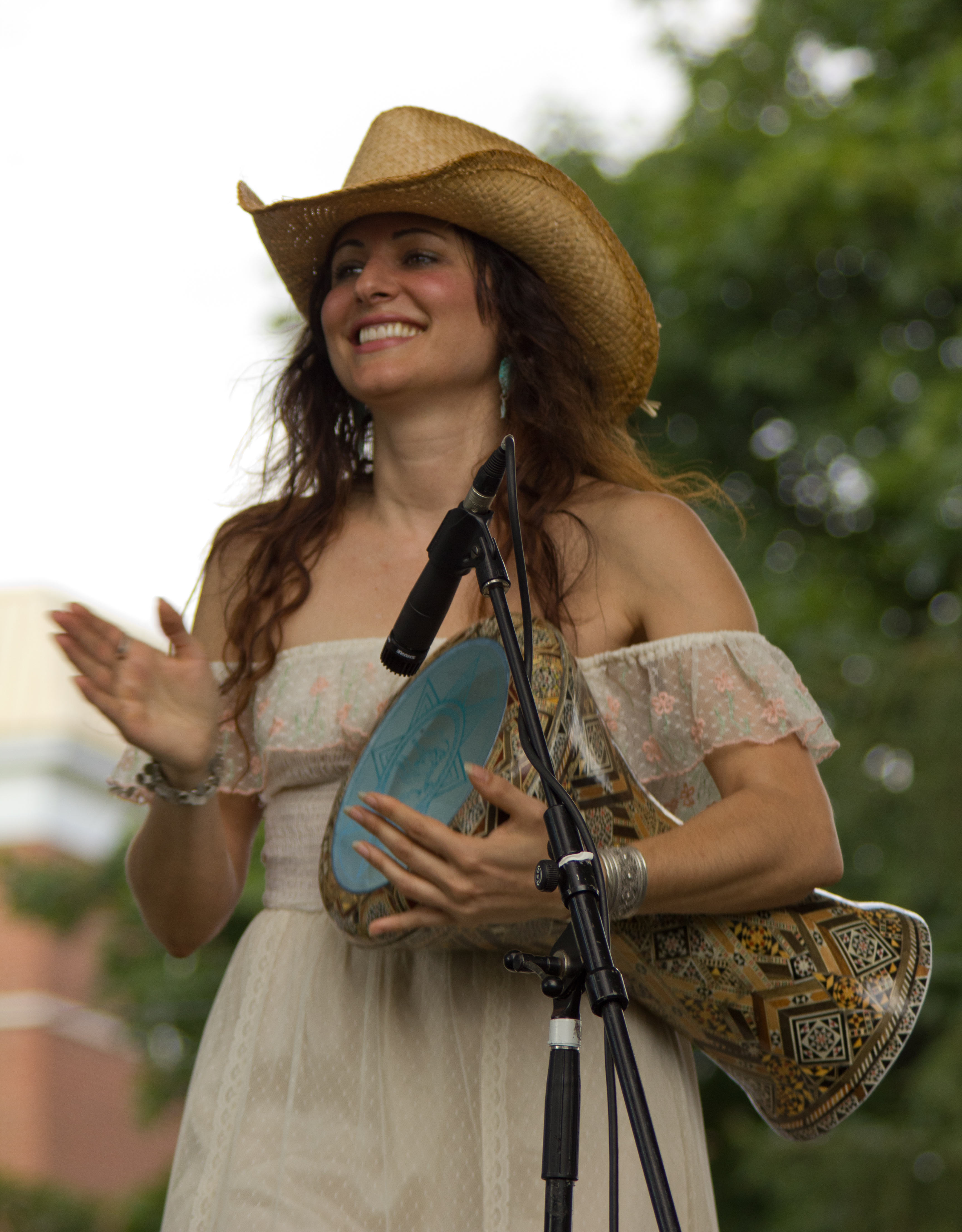 Silvana Kane